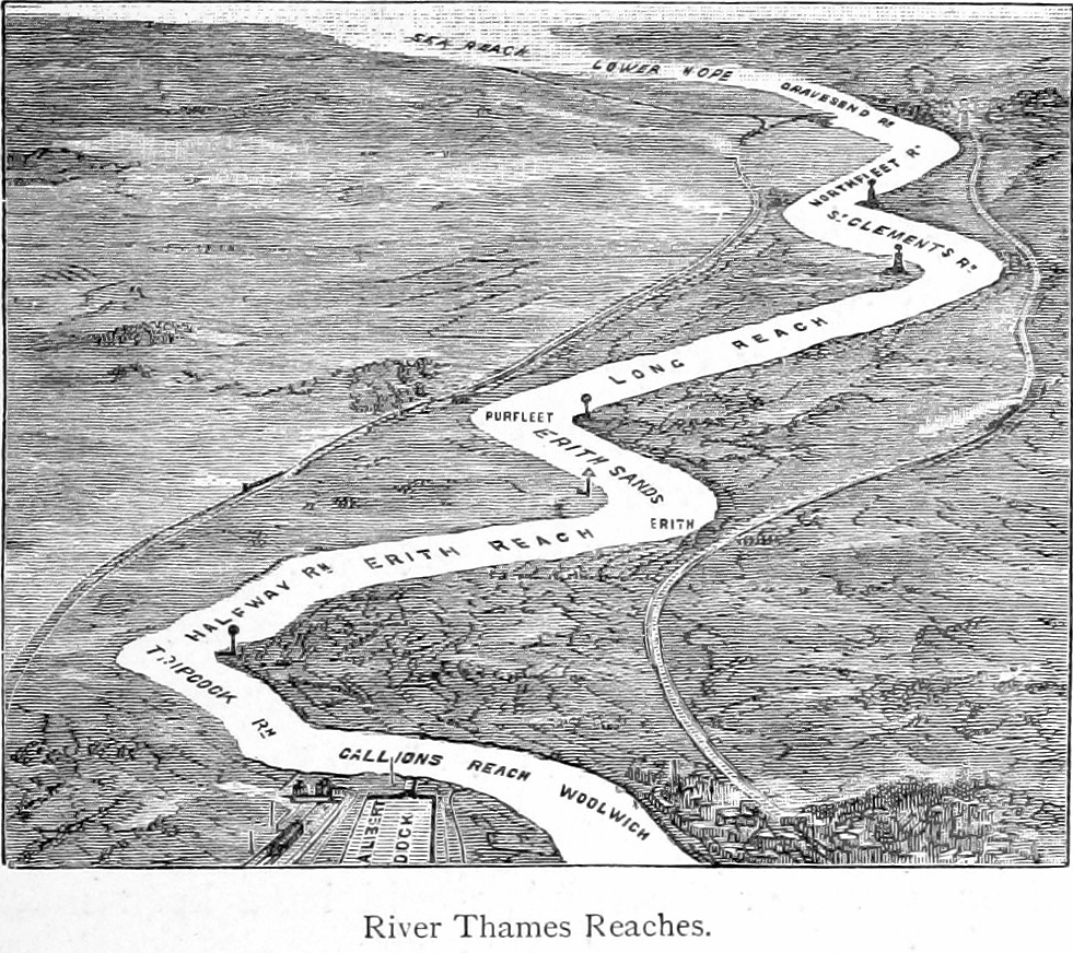 Image extracted from page 157 of Our Seamarks; a plain account of the Lighthouses, ... Buoys, and Fog-signals maintained on our Coasts. ... With ... illustrations, by Edwards, E. Price. Original held and digitised by the British Library. Note: The colours, contrast and appearance of these illustrations are unlikely to be true to life. They are derived from scanned images that have been enhanced for machine interpretation and have been altered from their originals.